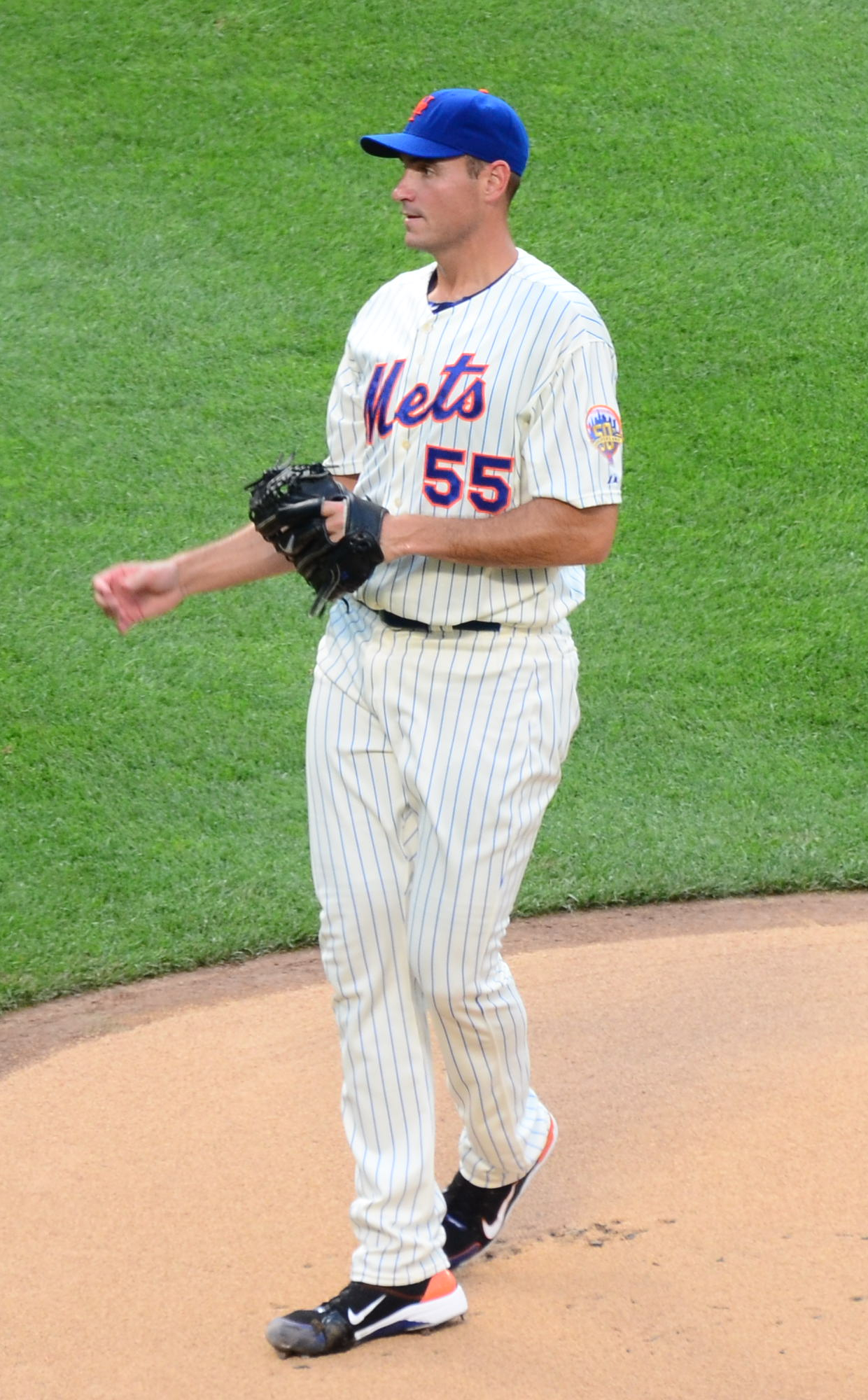 Chris Young